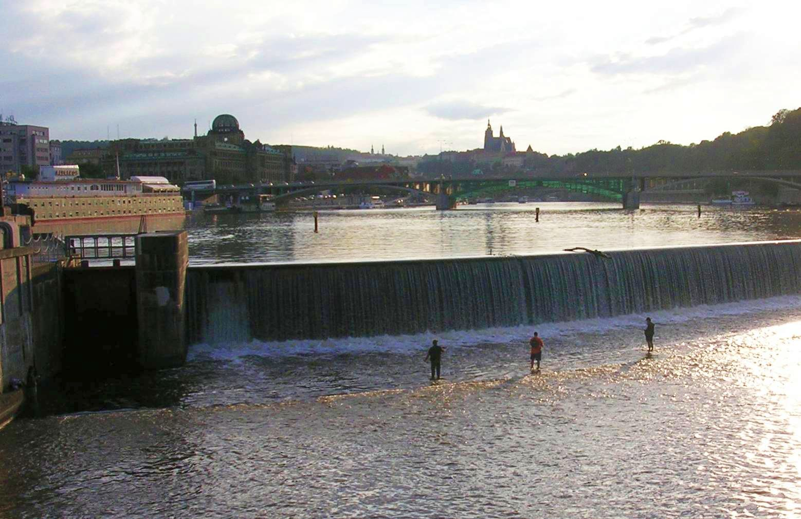 Prague, the Czech Republic. Štvanice Island. View of Old Town.